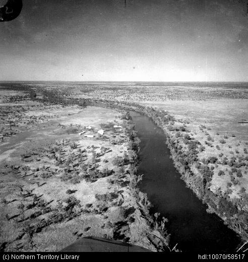 21 Squadron, RAAF, Darwin survey flight, aerial view of Victoria River Downs station, airfield and Wickham River.